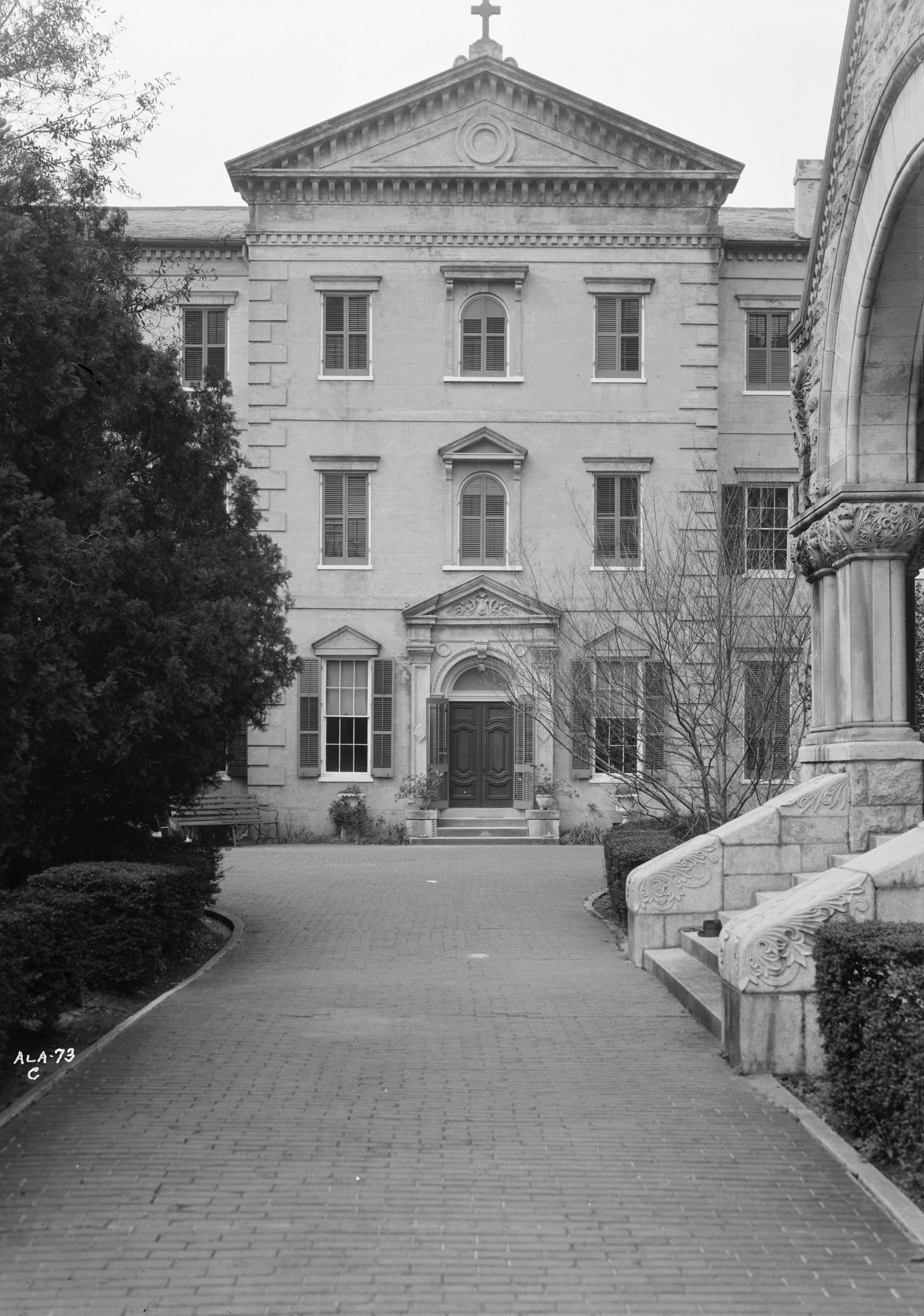 Convent of the Visitation, Section A, Spring Hill Avenue, Mobile, Mobile County, AL. CLOSE-UP OF CENTRAL FRONT (EAST) ELEV. SHOWING MAIN ENTRANCE TO CONVENT AND ACADEMY (CHURCH TO RIGHT).